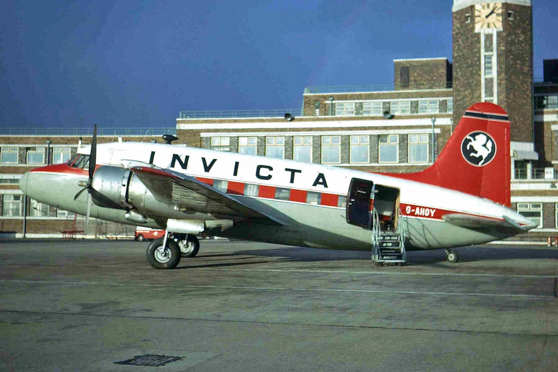 A picture of an airplane (name of it is on the file name).